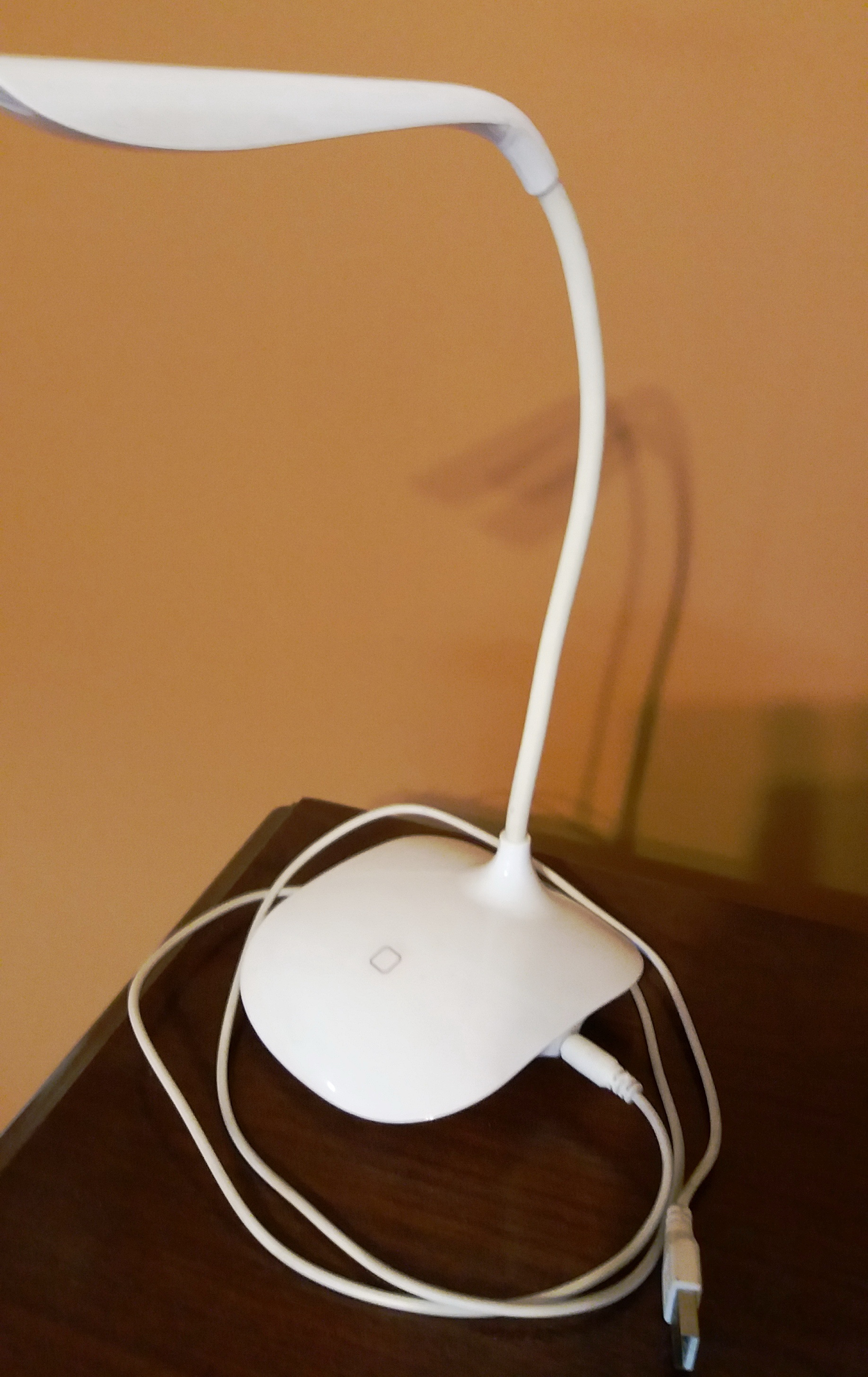 Table lamp with LED diode